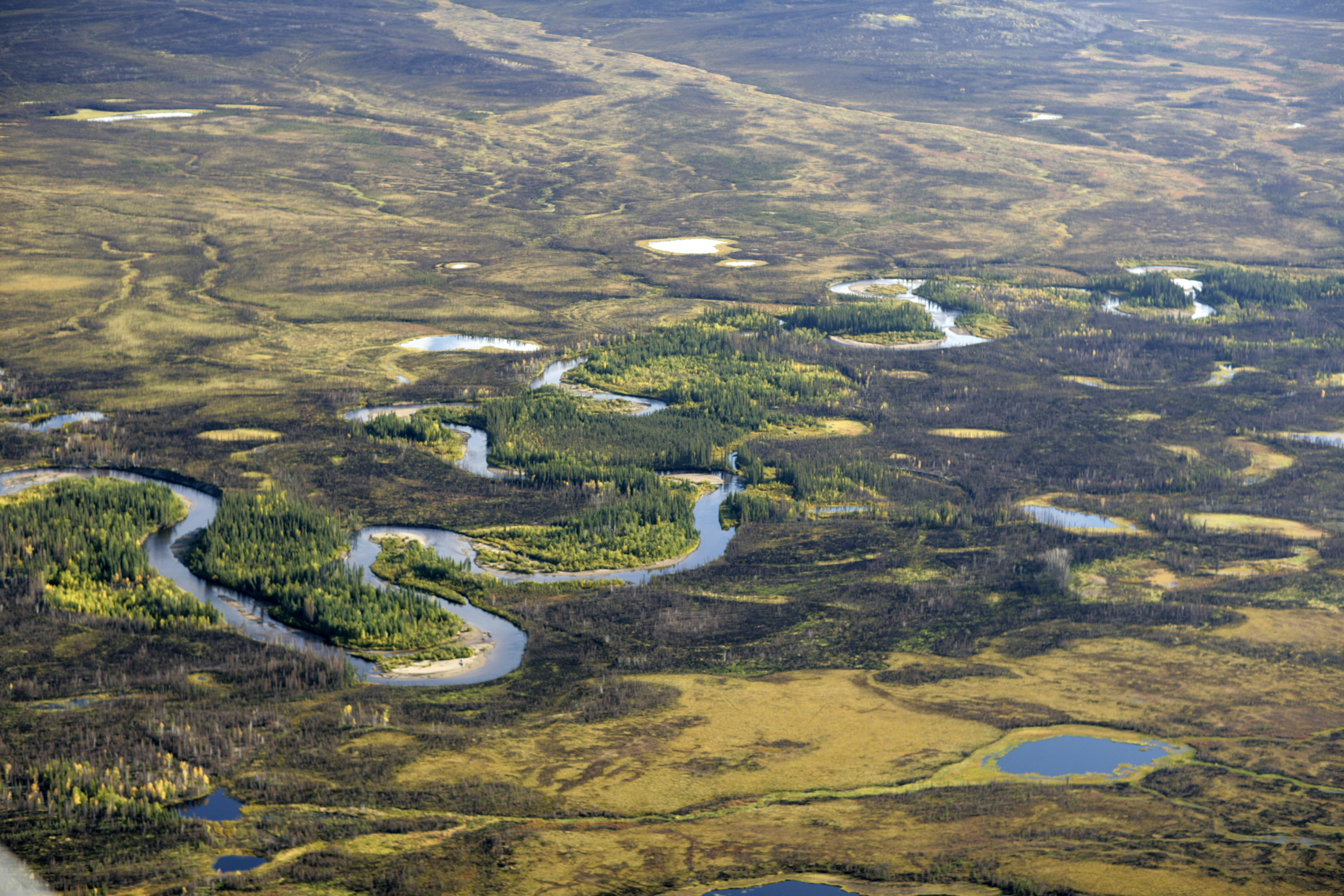 Kanuti River and burned area